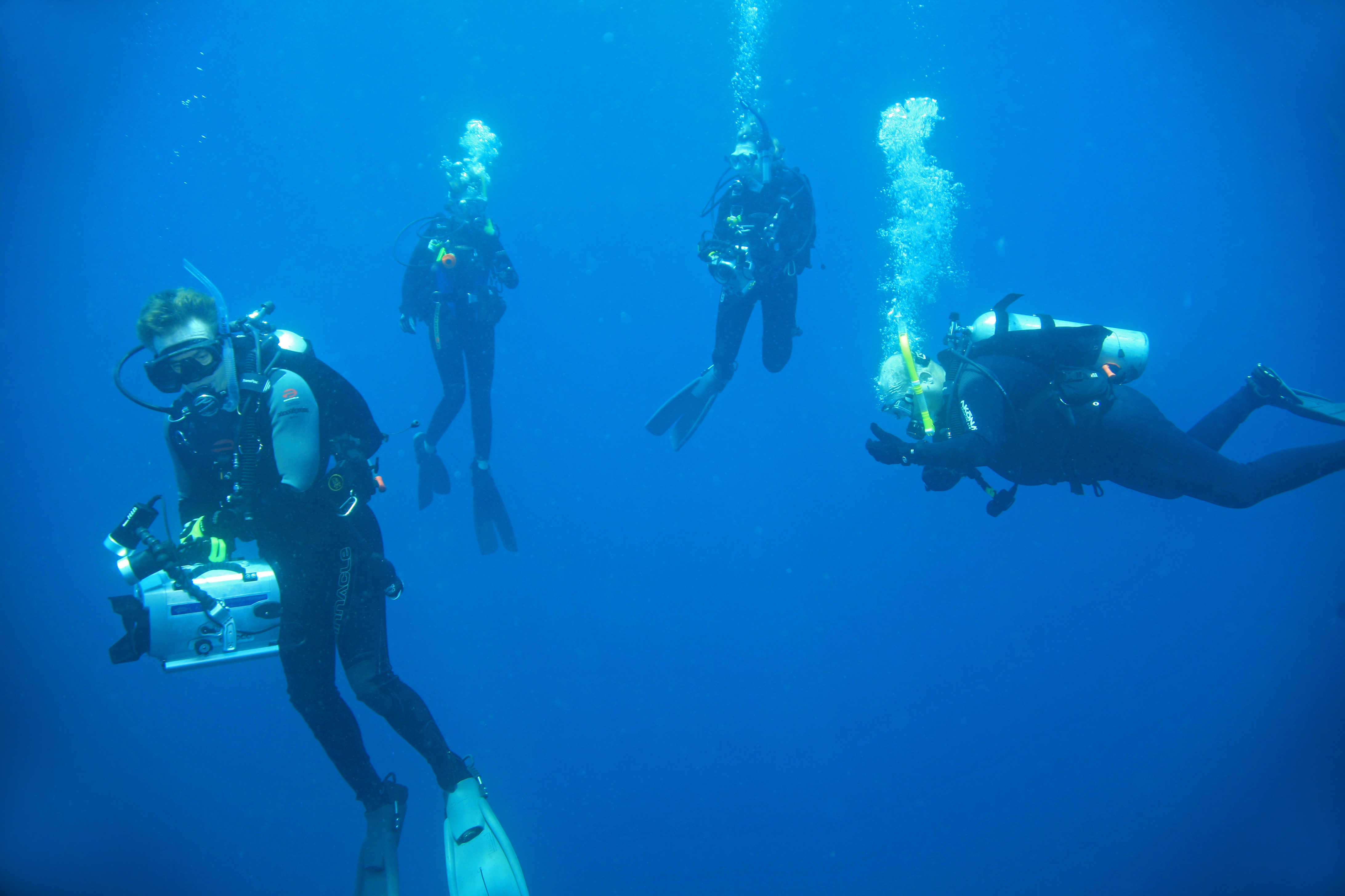 My dive companions from Dive Tulsa make their safety stop. Very experienced and accomplished, each one is a PADI master instructor or divemaster. They were to be my companions for the next three days on Isla Coiba. This photo was taken at a dive site named Viuda (Widow), near the island of Coiba off the west coast of Panama. Day 4